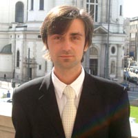 Szymon Niemiec - gay activist from Poland